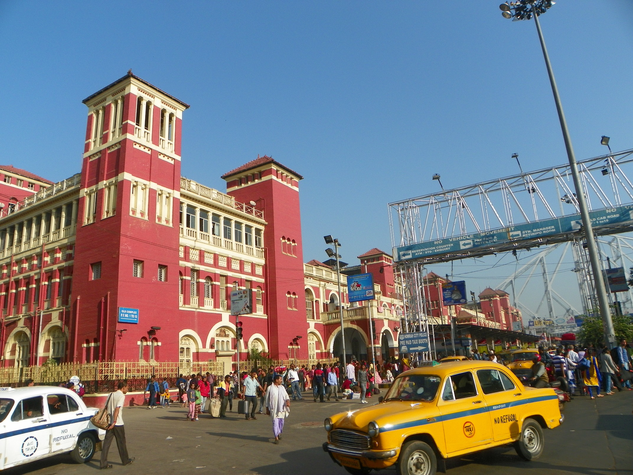 Howrah Junction railway station is the oldest station and largest railway complex in India.